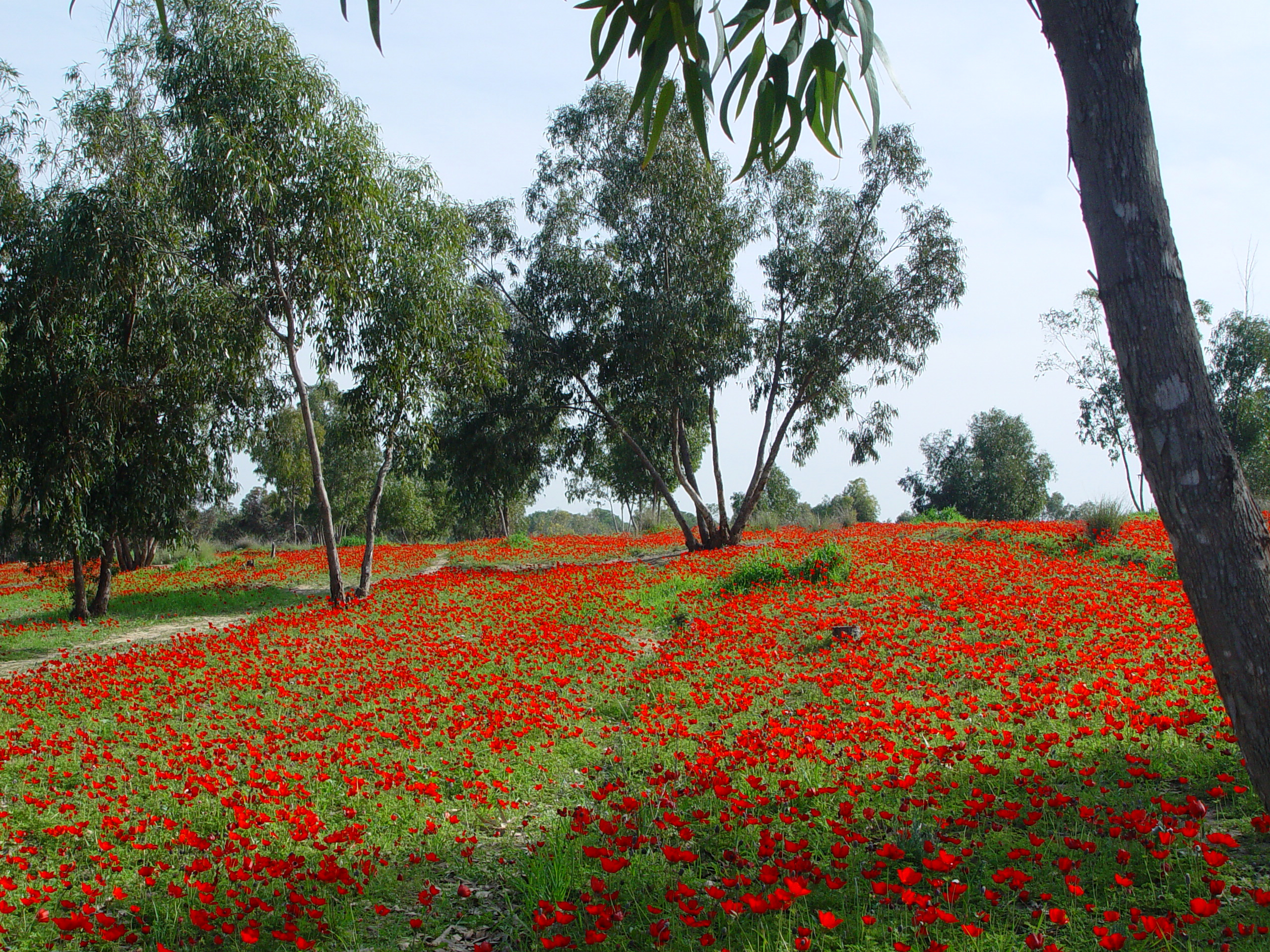 Anemone coronaria and Eucalyptus in northern Negev, Israel